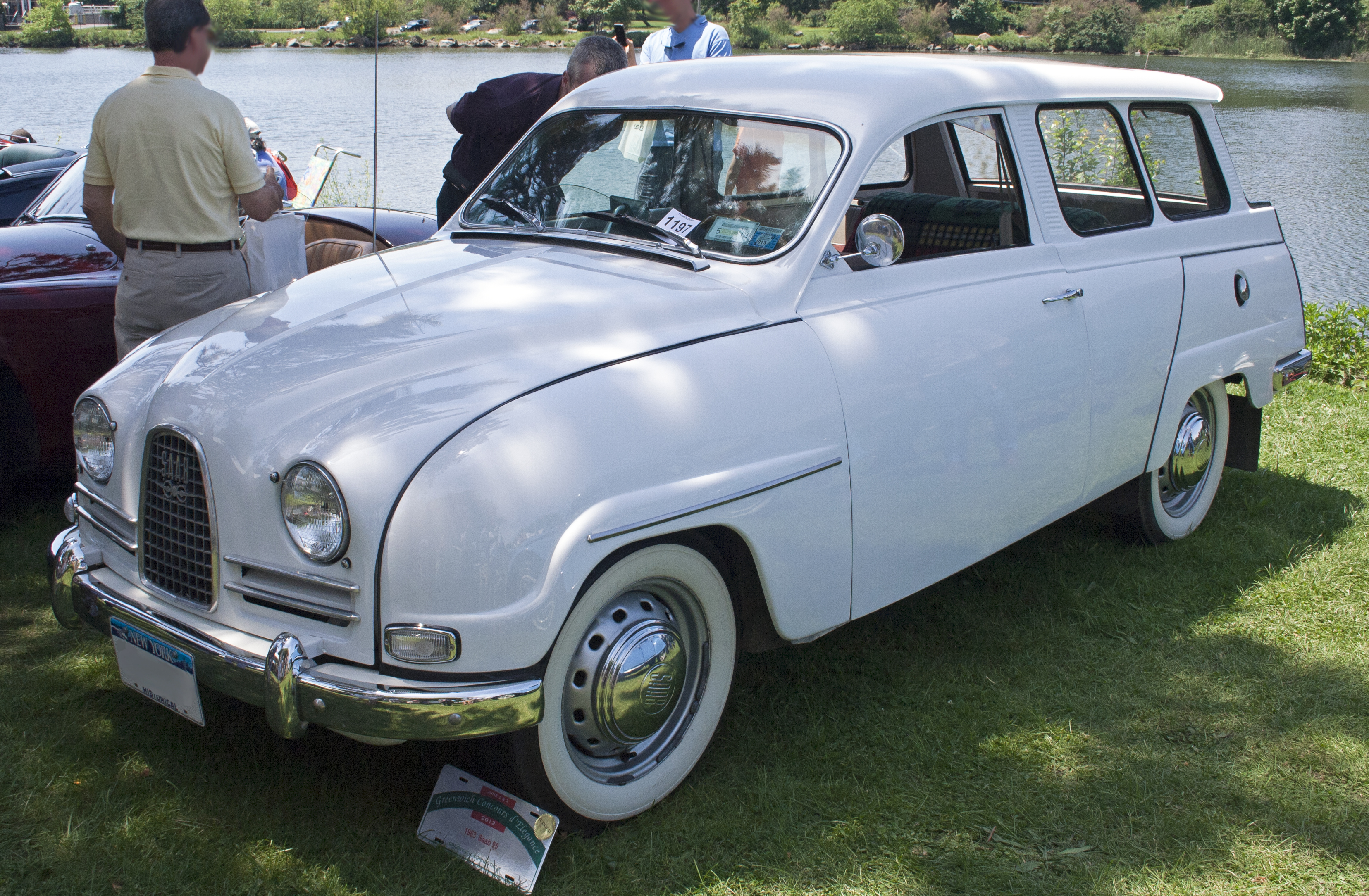 1963 SAAB 95 wagon at the 2012 Greenwich Concours d'Elegance - the only bull-nose 95 in North America.